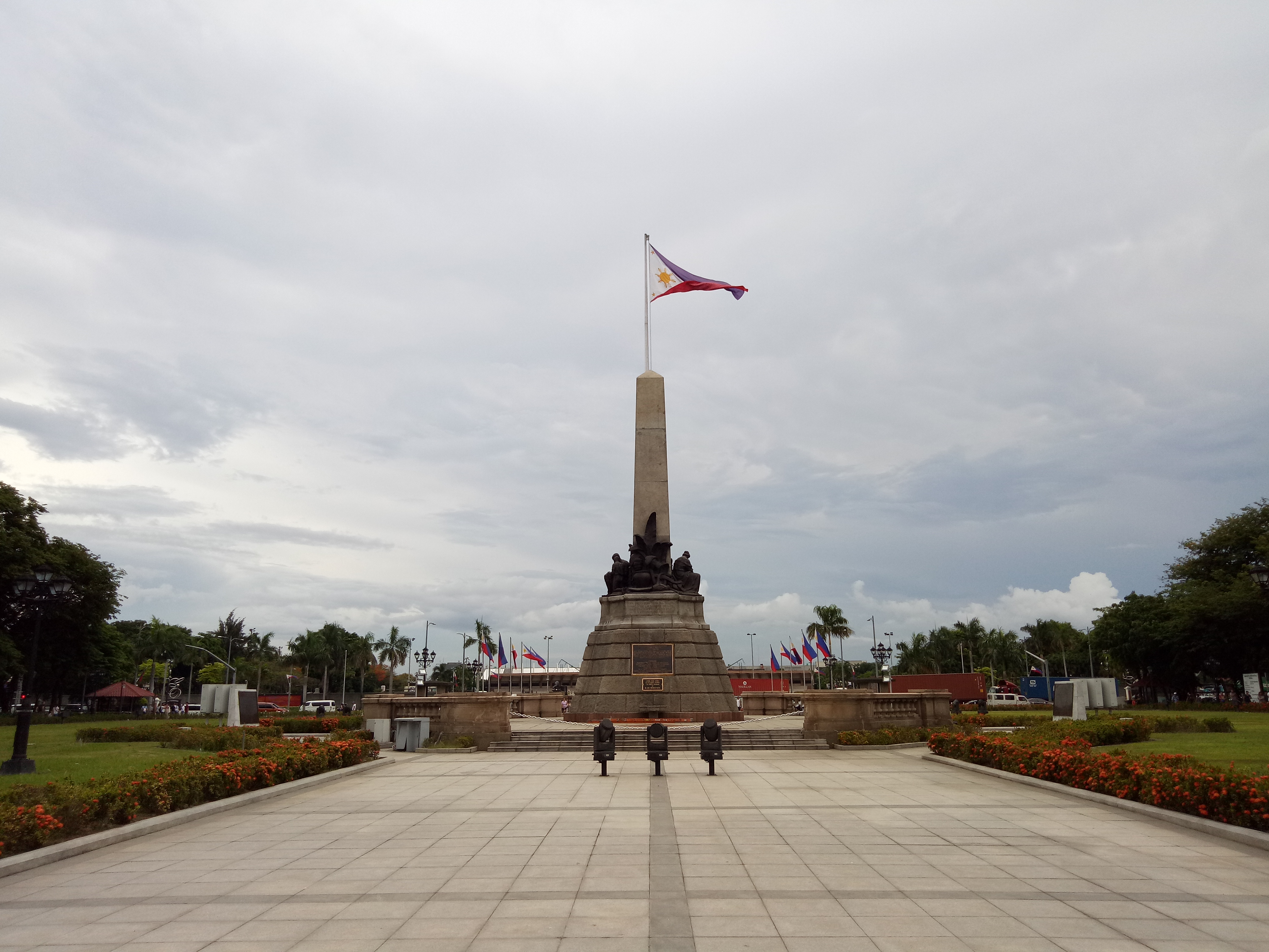 Rizal Park also known as Luneta Park or simply Luneta, is a historical urban park in the Philippines. Located along Roxas Boulevard, Manila, adjacent to the old walled city of Intramuros, it is one of the largest urban parks in Asia. It has been a favorite leisure spot, and is frequented on Sundays and national holidays. Rizal Park is one of the major tourist attractions of Manila. Uploaded as entry to Wiki Loves Earth (2018). Coordinates: 14°34′57″N 120°58′42″E